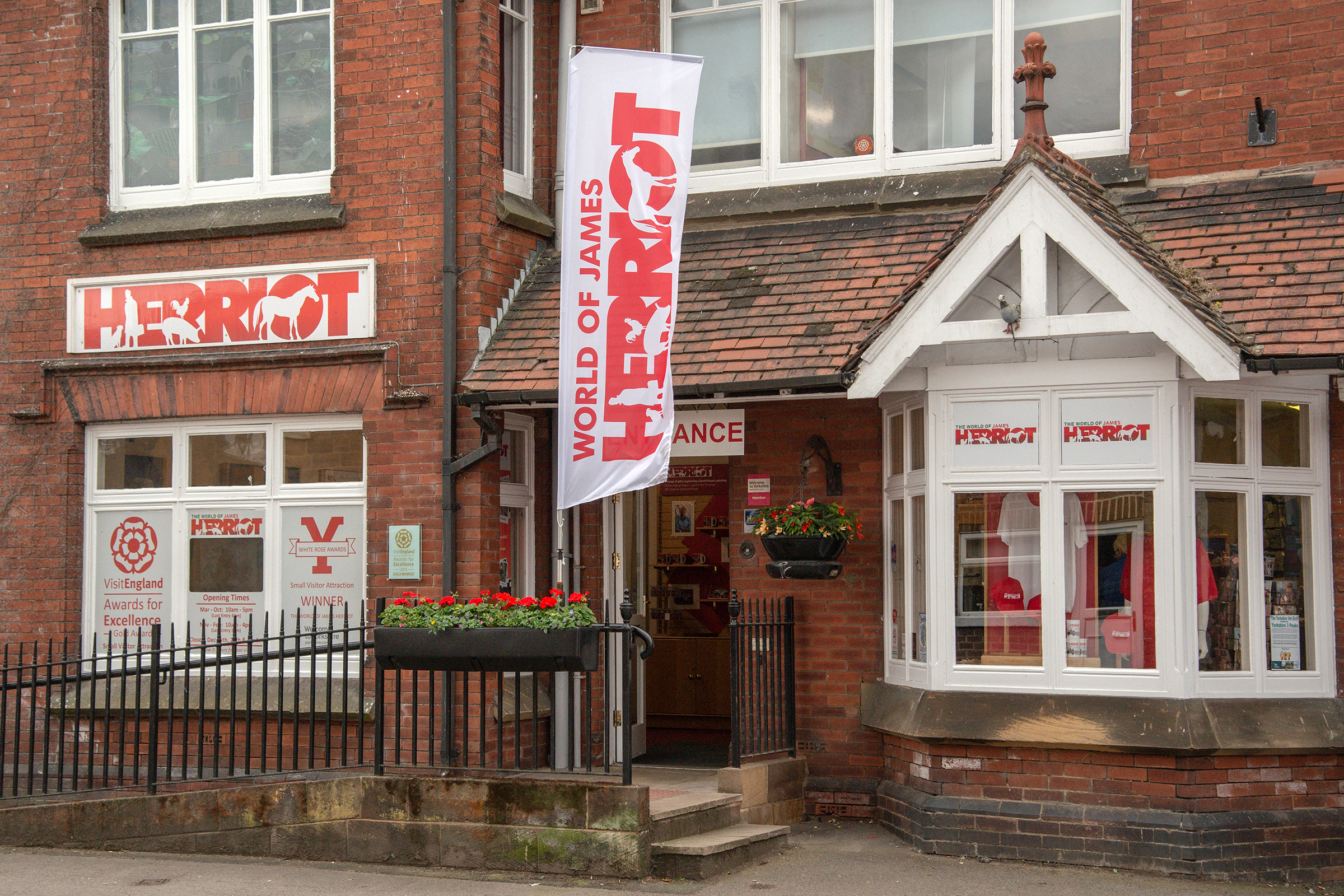 Alf Wight's original practice, now, The World of James Herriot Museum in Thirsk at 23 Kirkgate.